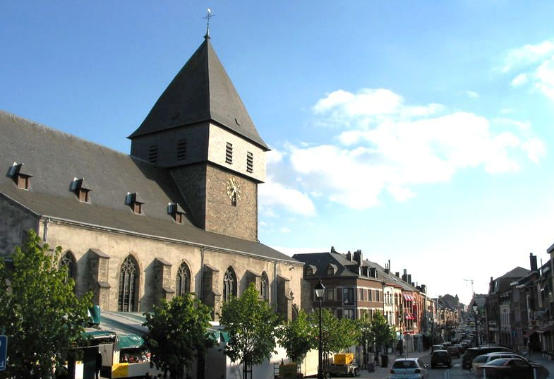 Bastogne, Belgium: St Peter’s church (11th–16th centuries).